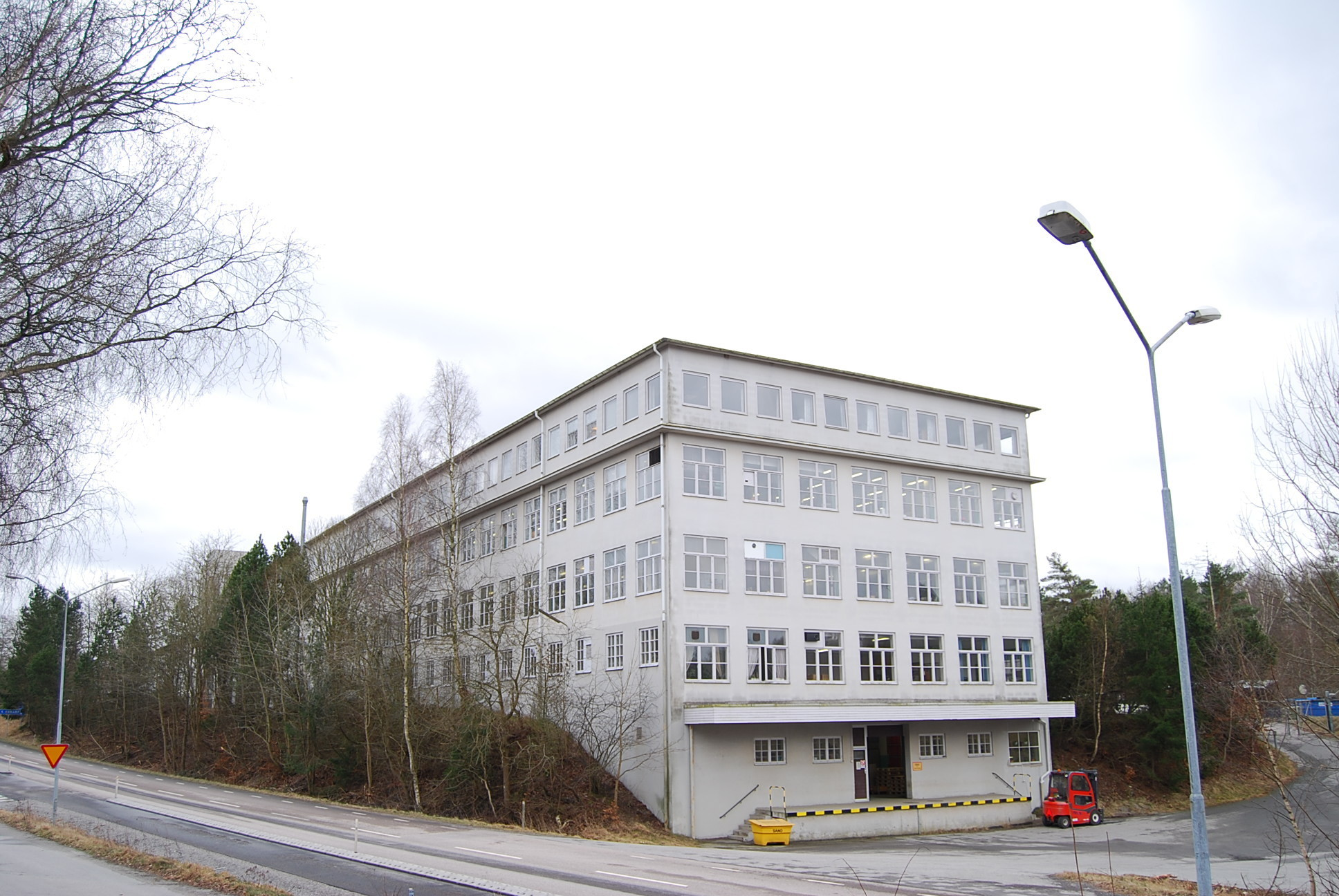 Author: Albert Sandberg Original Link: ABU Garcia, Svängsta, from the north.